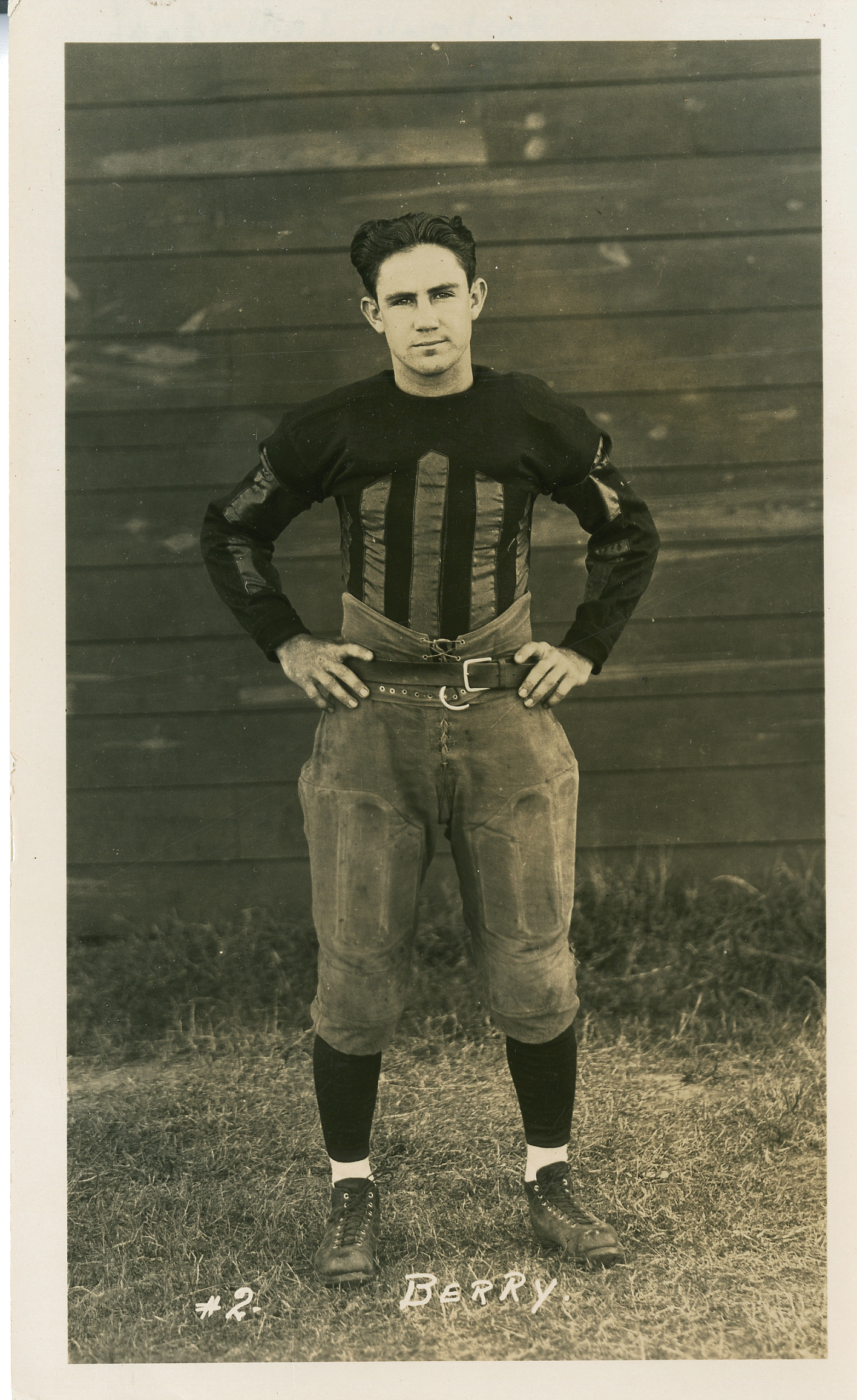 Creator: Unknown Reference Number: 7674 Publisher: Cushing Memorial Library and Archives, Texas A&M University Document Type: Photograph Category: Athletics: Football - Individuals - 1920s Digitization Date: 2006-05-26 Photograph Date: ca. 1923-1925 Dimensions: 3.5 x 6 inches Location: Pictures: Football Individuals (1920-1929) - 32 Caption: R. H. (Bob) Berry '26 Quarterback Collection: Texas A&M University Archives Photograph Collection Contact Information: Phone: 979-845-1951 Repository: Cushing Memorial Library and Archives, Texas A&M University, College Station, Texas Restrictions: It is the users responsibility to secure permission from the copyright holders for publication of any materials. Permission must be obtained in writing prior to publication. Please contact the Cushing Library for further information.